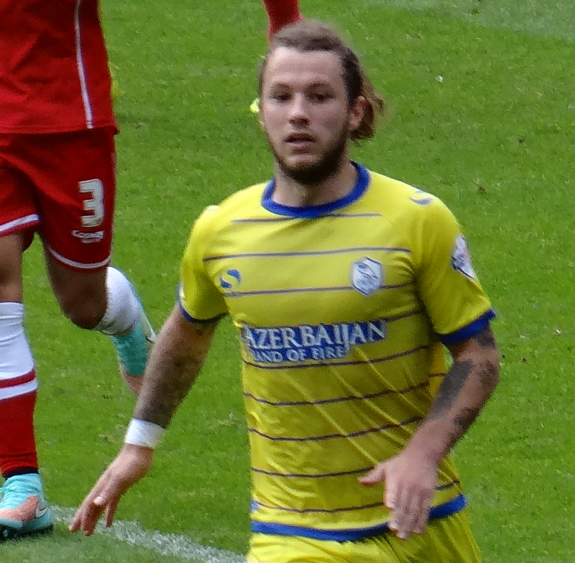 Stevie May playing for Sheffield Wednesday